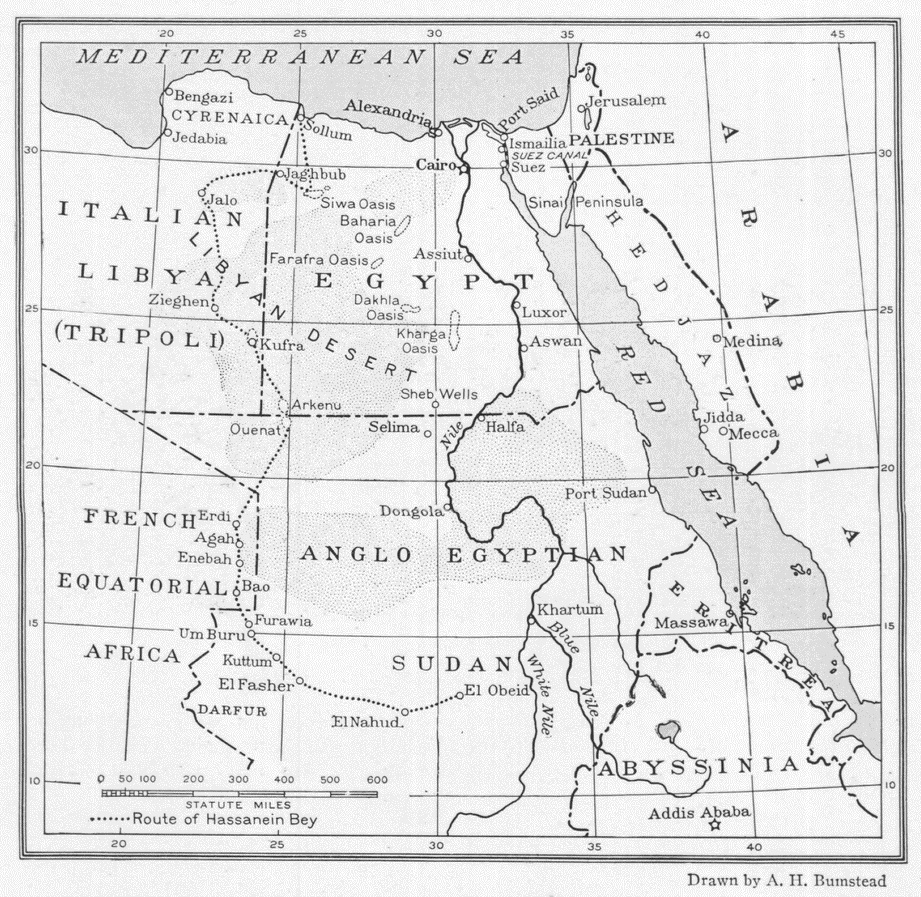 By Mohamed Mabrouk from public domain copy of the book owned by family of Ahmed Pasha Hassanein.